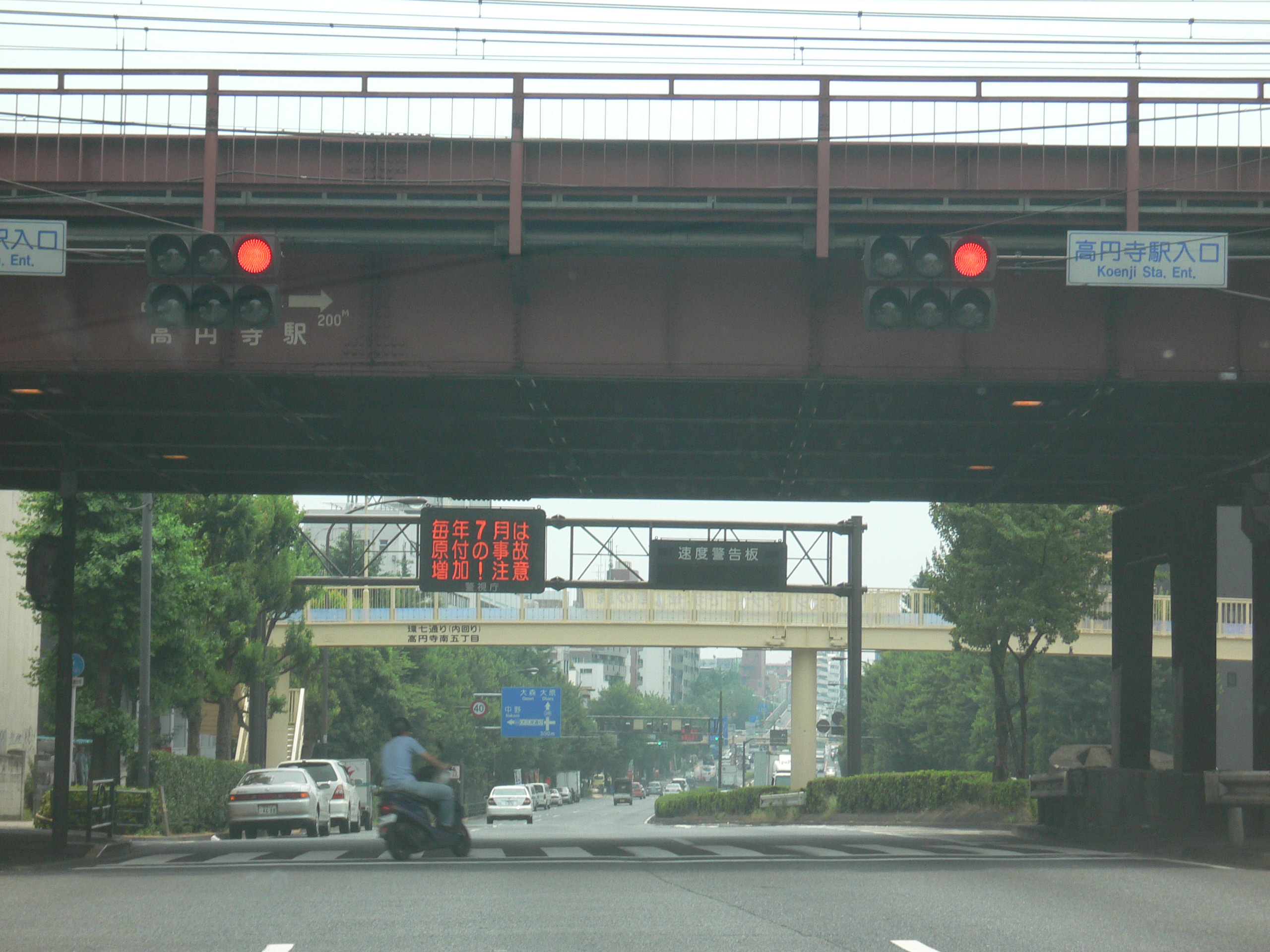 Kannana Dori (環七通り), Suginami W, Tokyo.